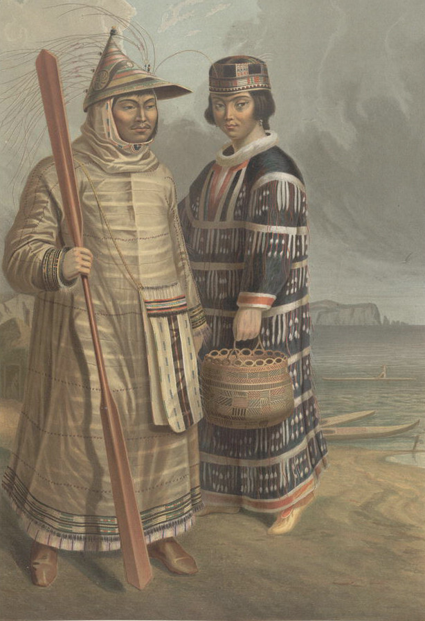 Man and woman dressed in ceremonial attire. Aleutian Islands, c1862 Karl F. Gun